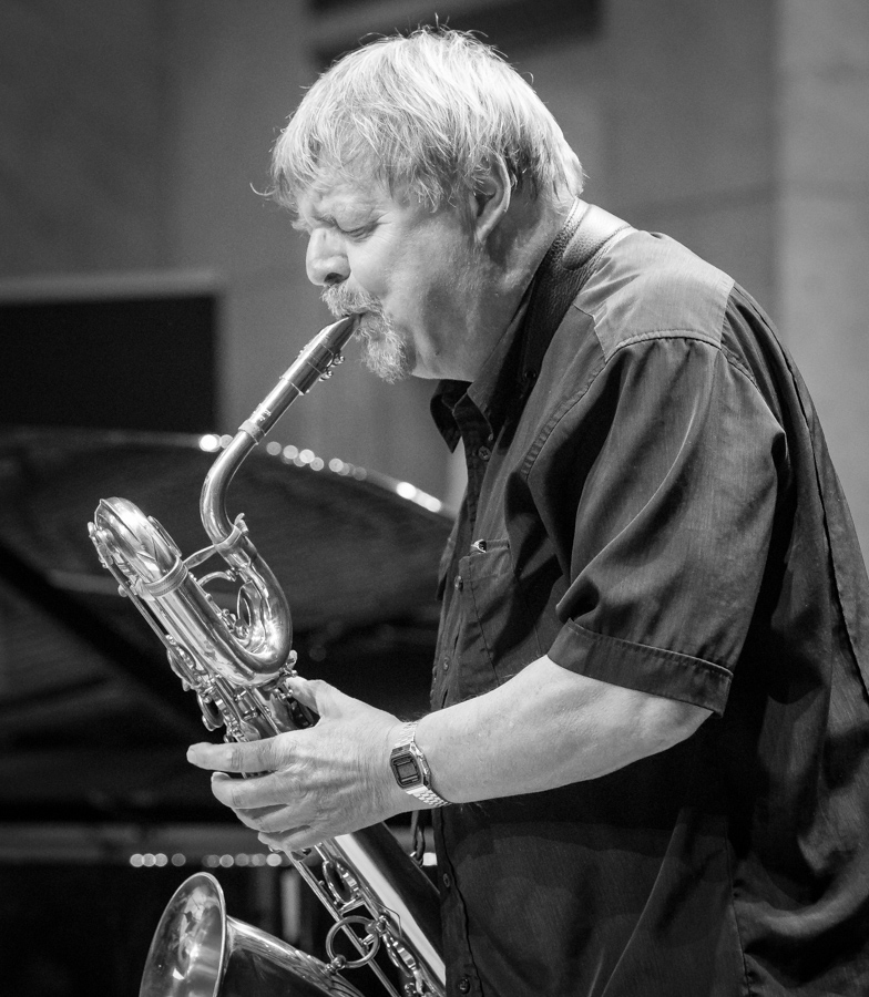 John Surman with Karin Krog and Steve Kuhn in the University Aula. The concert was part of Oslo Jazzfestival and took place on 16. August 2017 in Oslo. Lineup: Karin Krog (vocal), John Surman (baritone saxophone) and Steve Kuhn (piano).